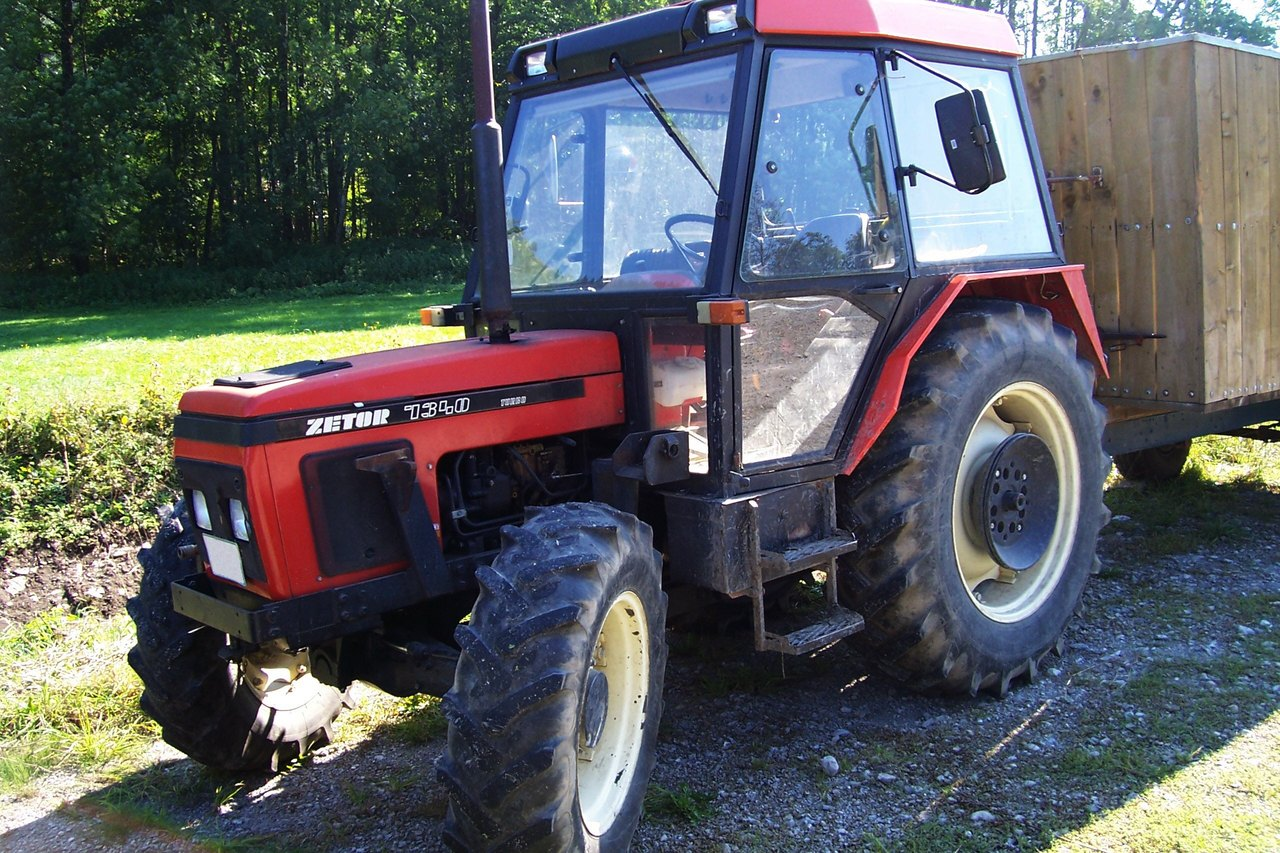 Zetor 7340 tractor